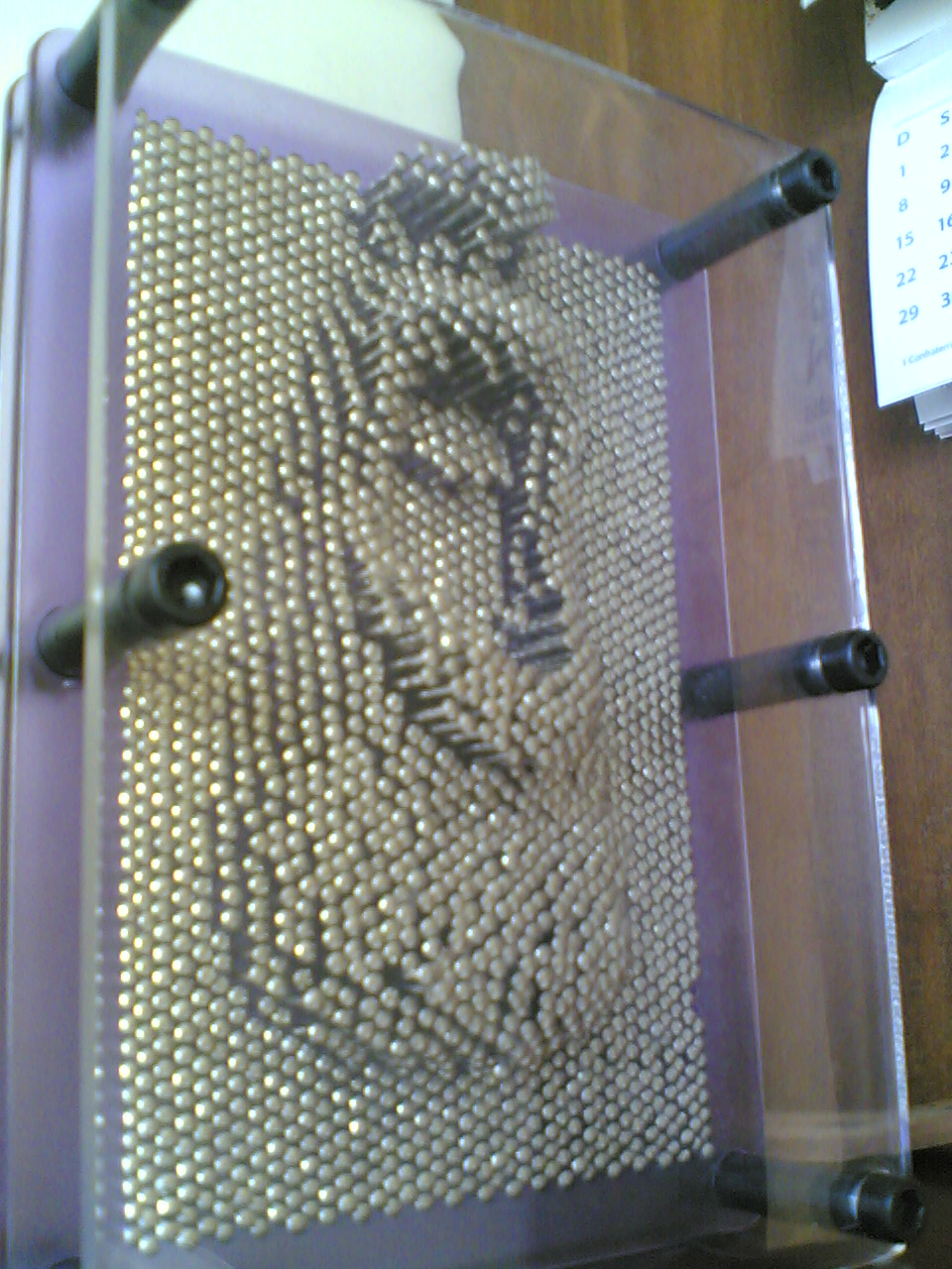 An impression left in a pin art board by the lower half of a face.